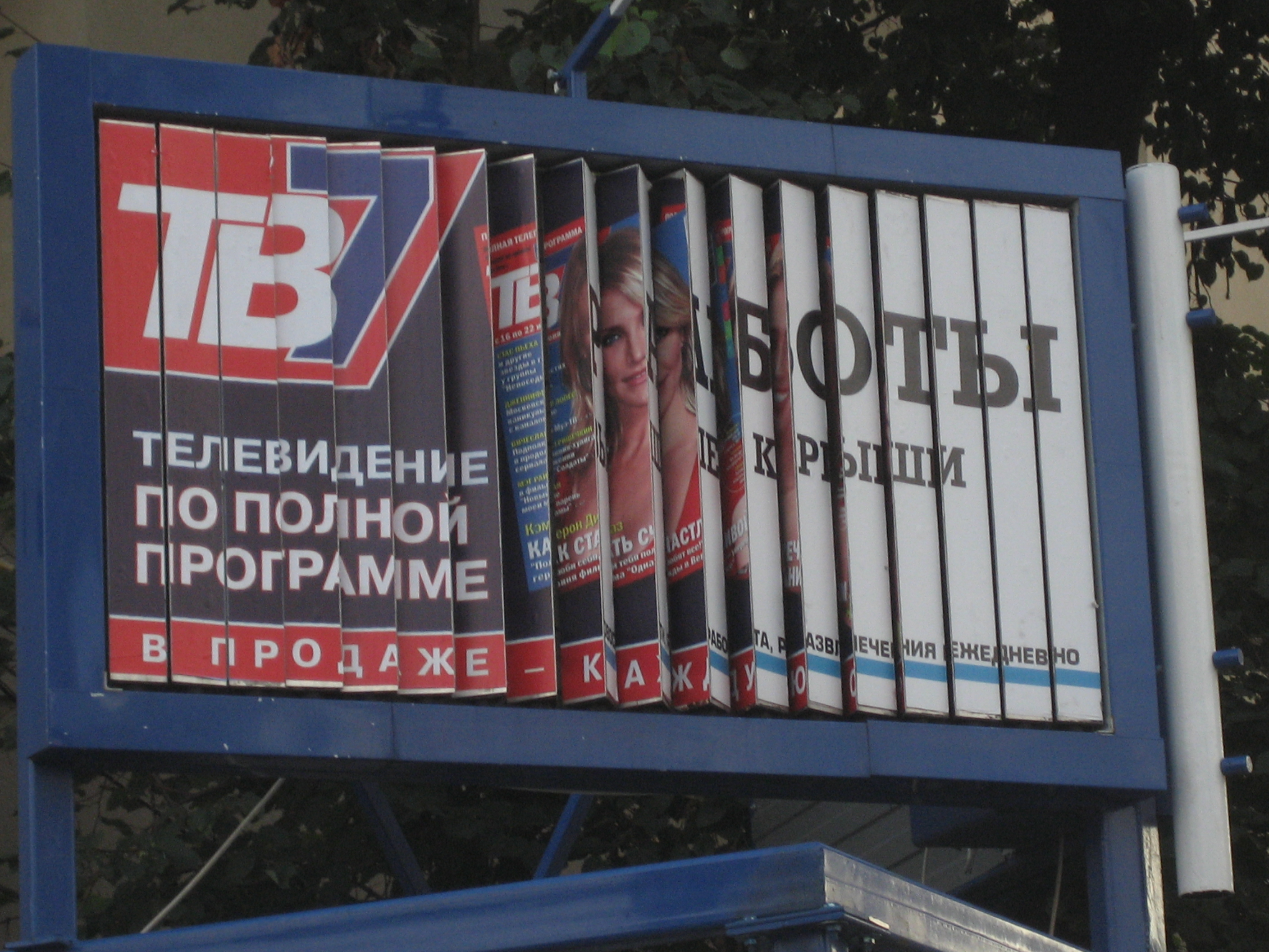 Prismavision little